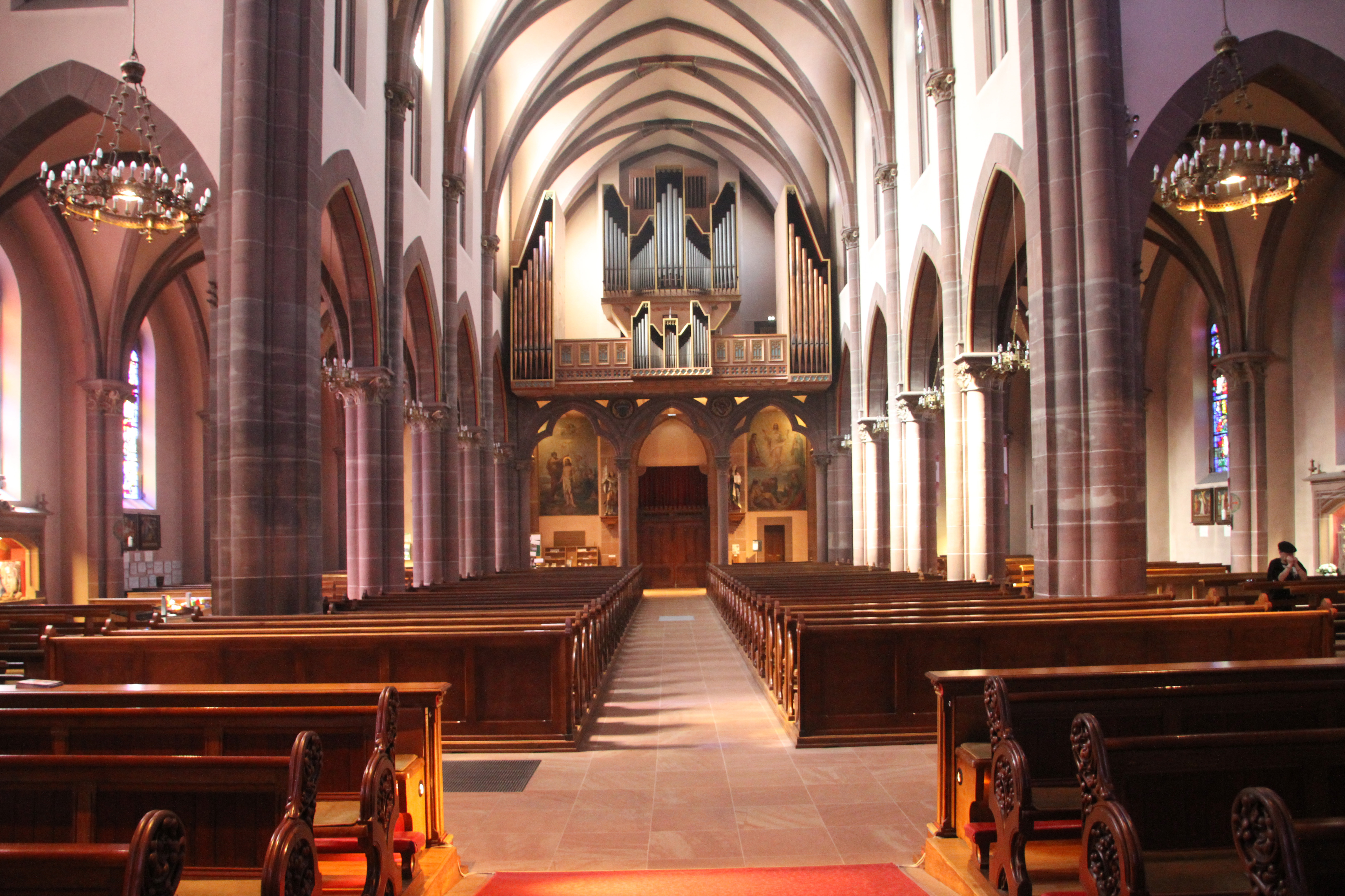 Church of Notre-Dame in Haguenau-Marienthal, interior decoration.